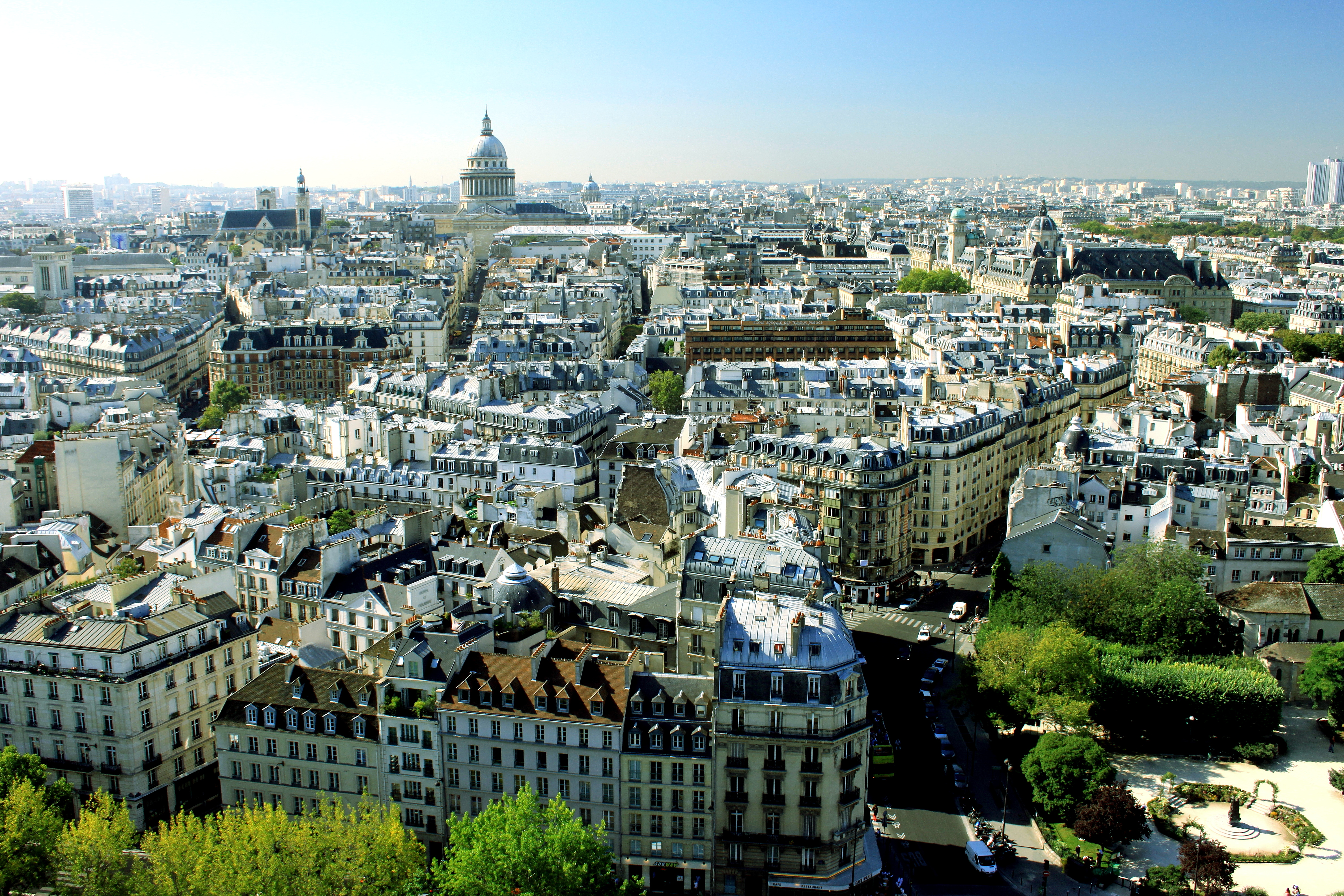 Views from the top of the towers